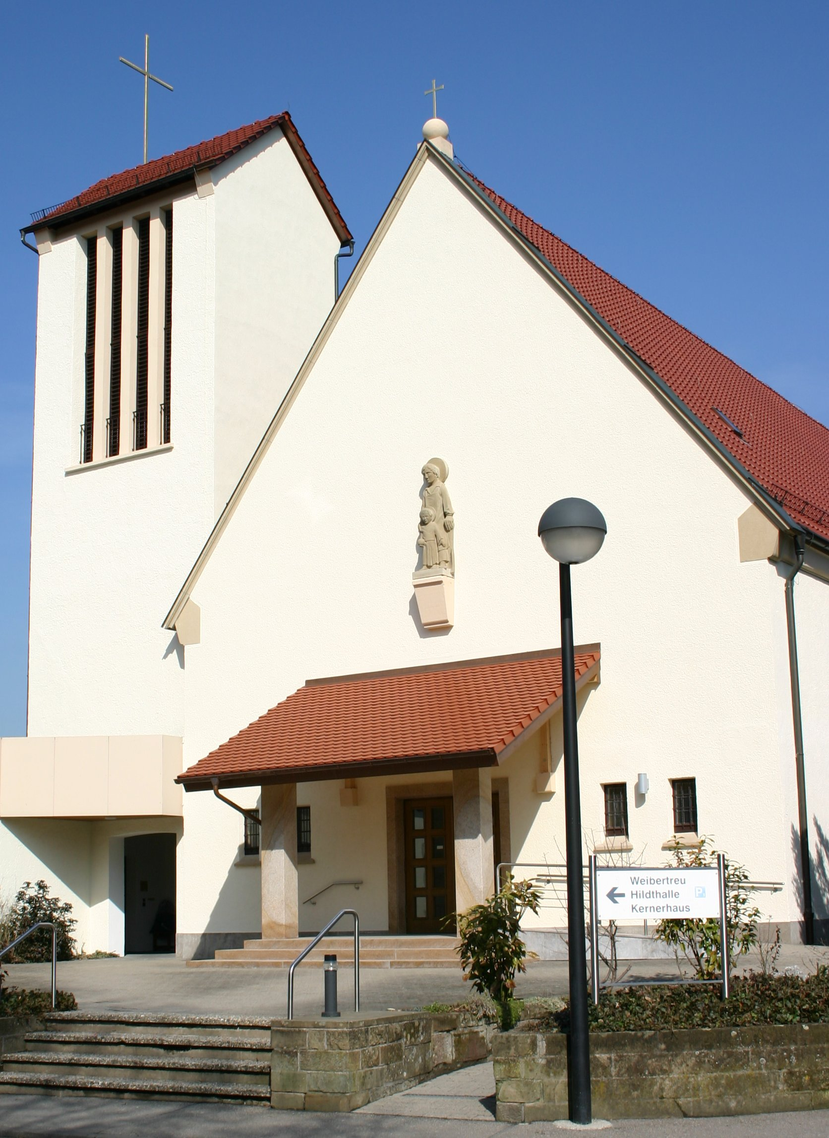 Catholic church St Josef in Weinsberg